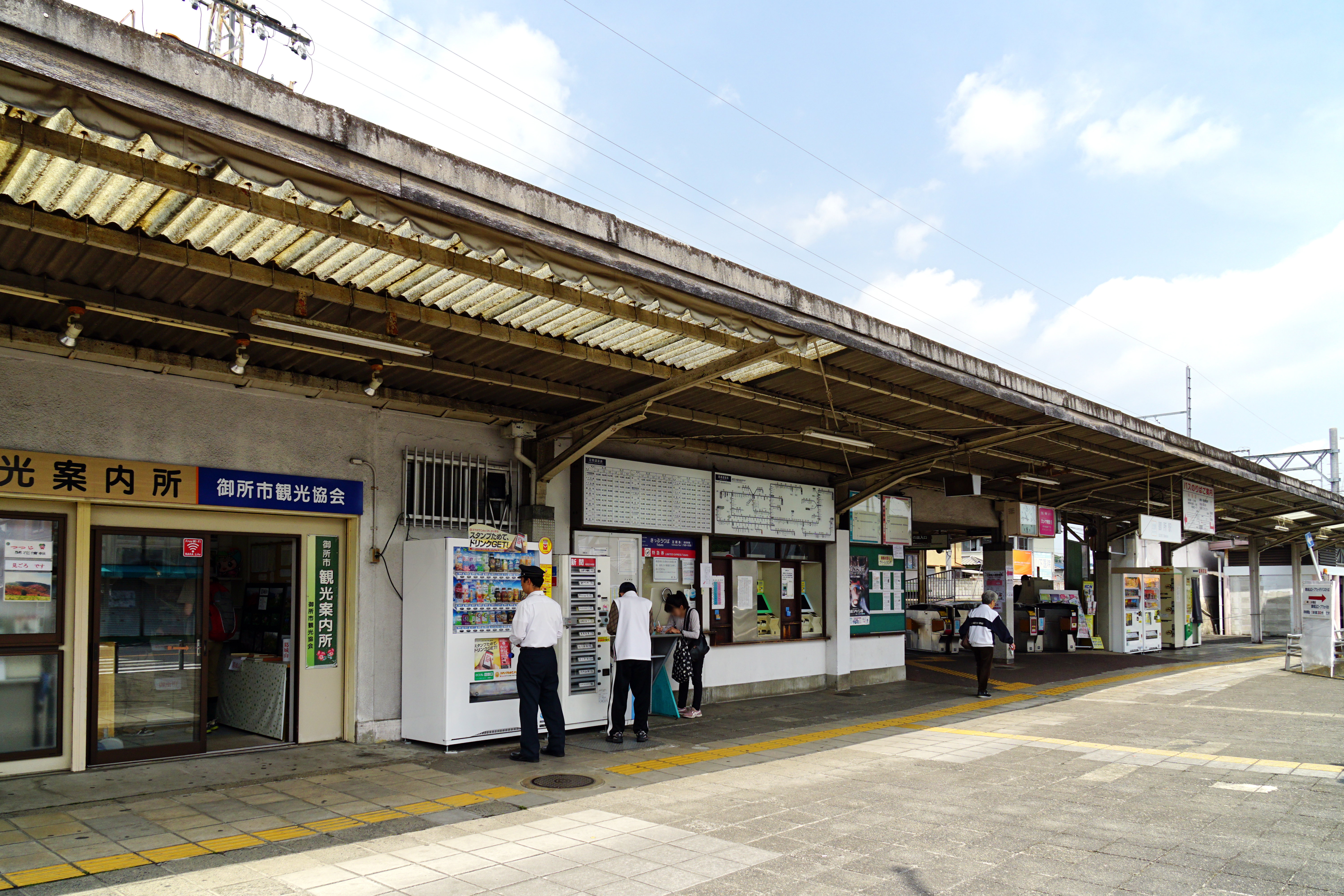 Kintetsu Gose Station in Gose, Nara prefecture, Japan